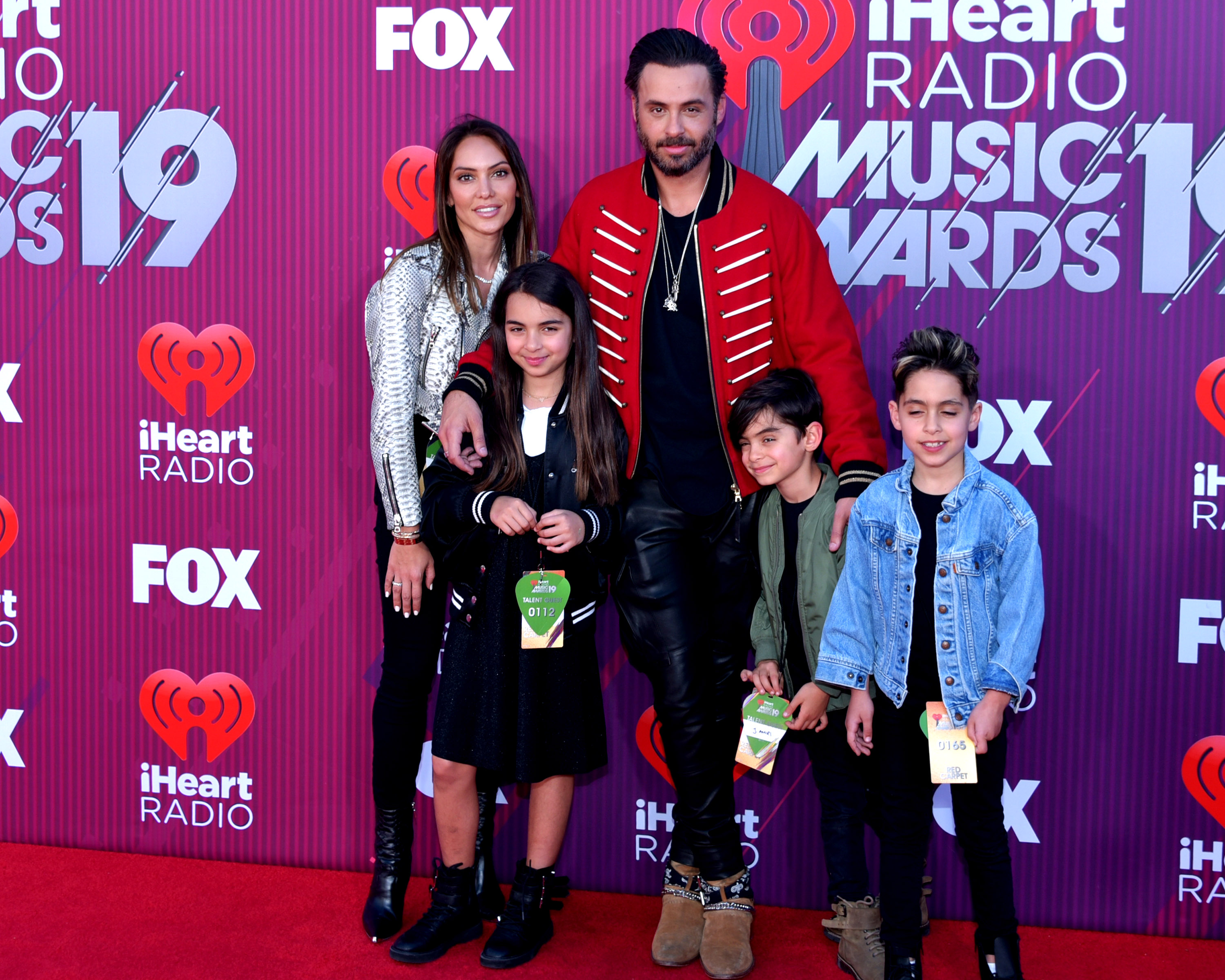 Mike Amiri at the 2019 iHeartRadio Music Awards in Los Angeles California - Photo by Glenn Francis of